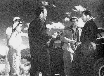 Screenshot The Hitch-Hiker (film, 1953) The Hitch-Hiker at the Internet Archive Licensing This work is in the public domain because it was published in the United States between 1923 and 1963 and although there may or may not have been a copyright notice, the copyright was not renewed. Unless its author has been dead for the required period, it is copyrighted in the countries or areas that do not apply the rule of the shorter term for US works, such as Canada (50 pma), Mainland China (50 pma, not Hong Kong or Macao), Germany (70 pma), Mexico (100 pma), Switzerland (70 pma), and other countries with individual treaties. See Commons:Hirtle chart for further explanation.